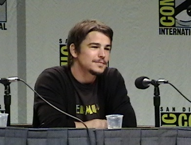 Josh Harnett at Comic Con 2007 to promote 30 Days of Night.